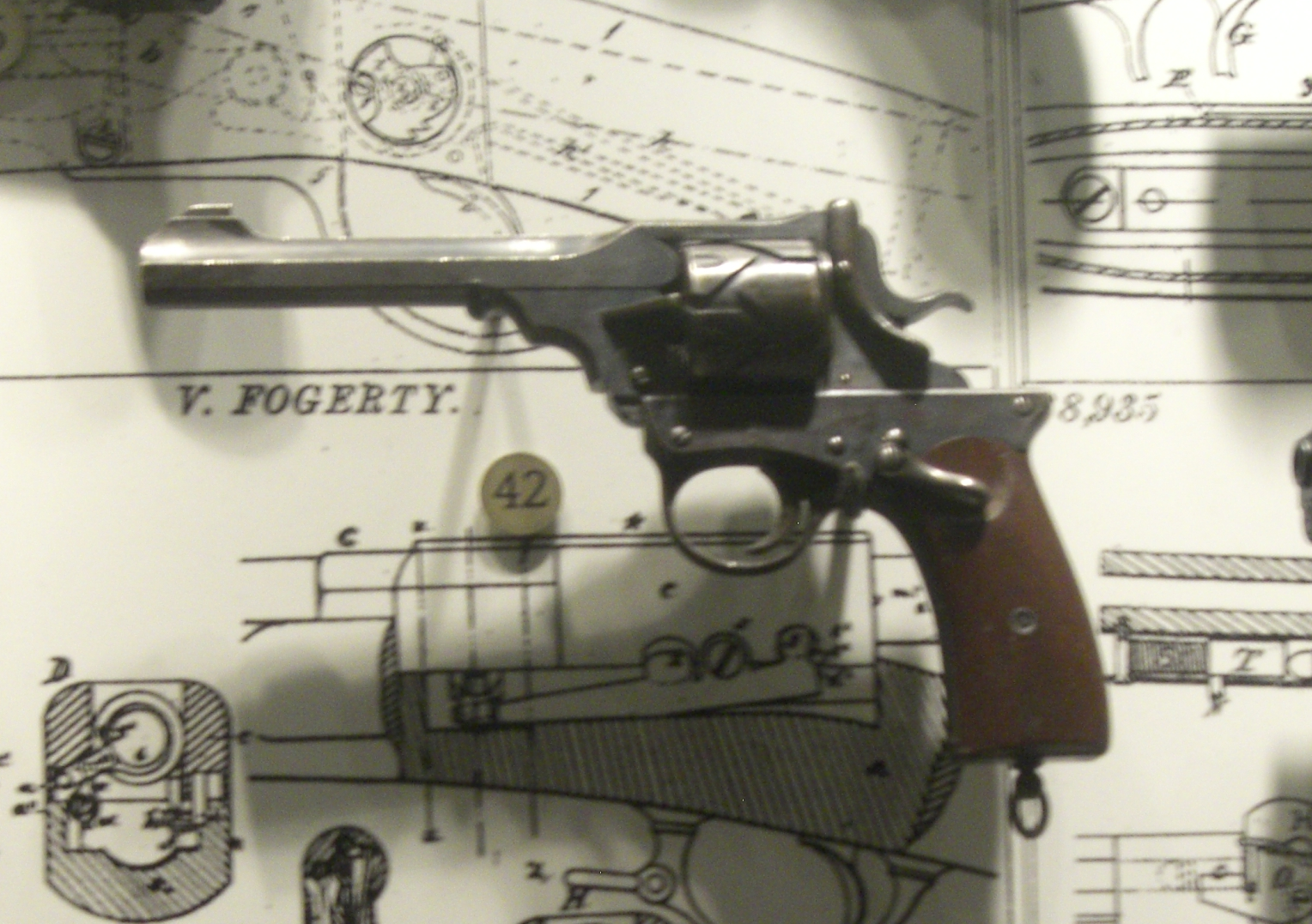 Cutout from the image Mauser Zig-Zag&Webley-Fosbery.jpg